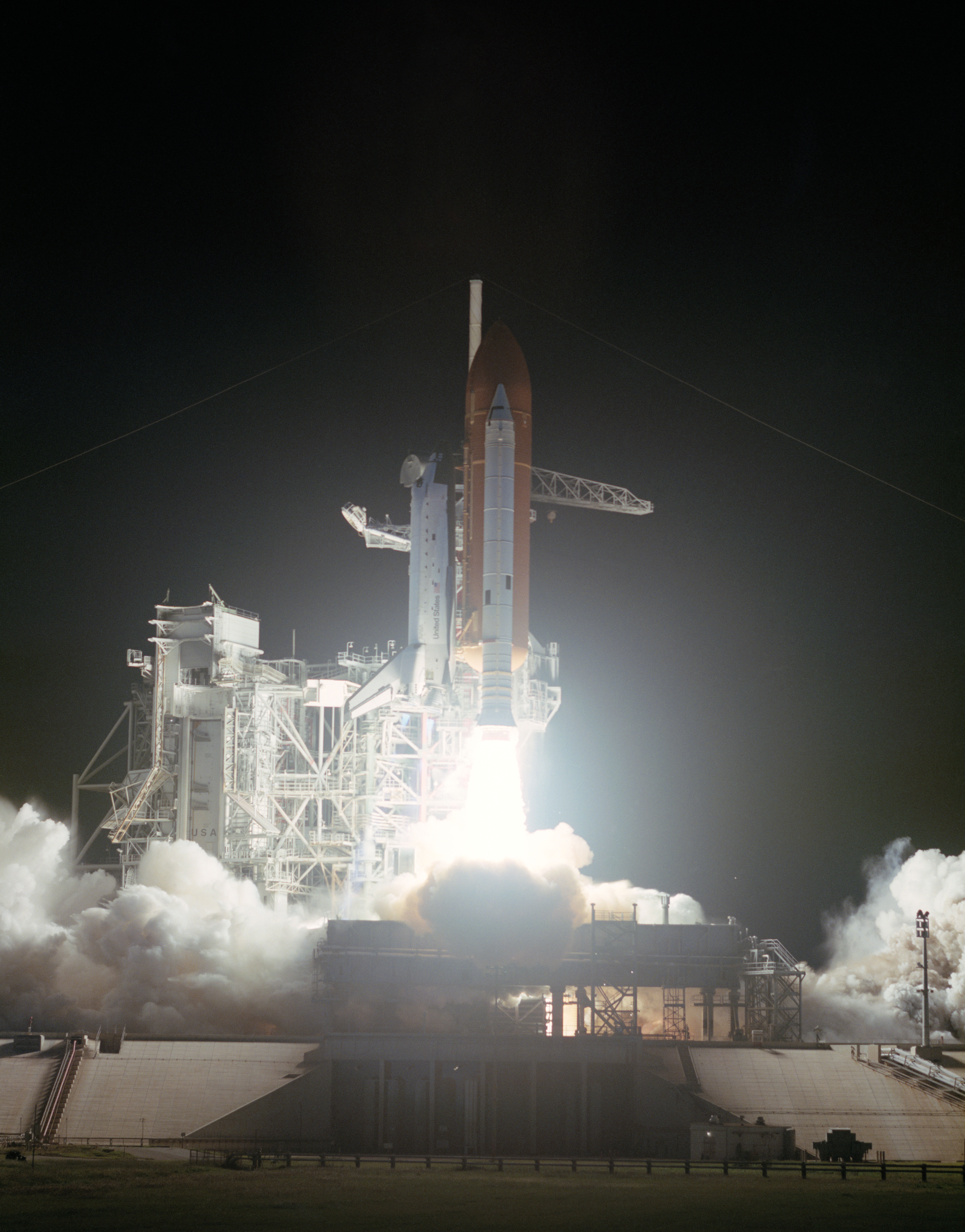 View of the early morning launch of STS 41-G Challenger. The dark launch complex is illuminated by spotlights as the orbiter begins its ascent from the pad.